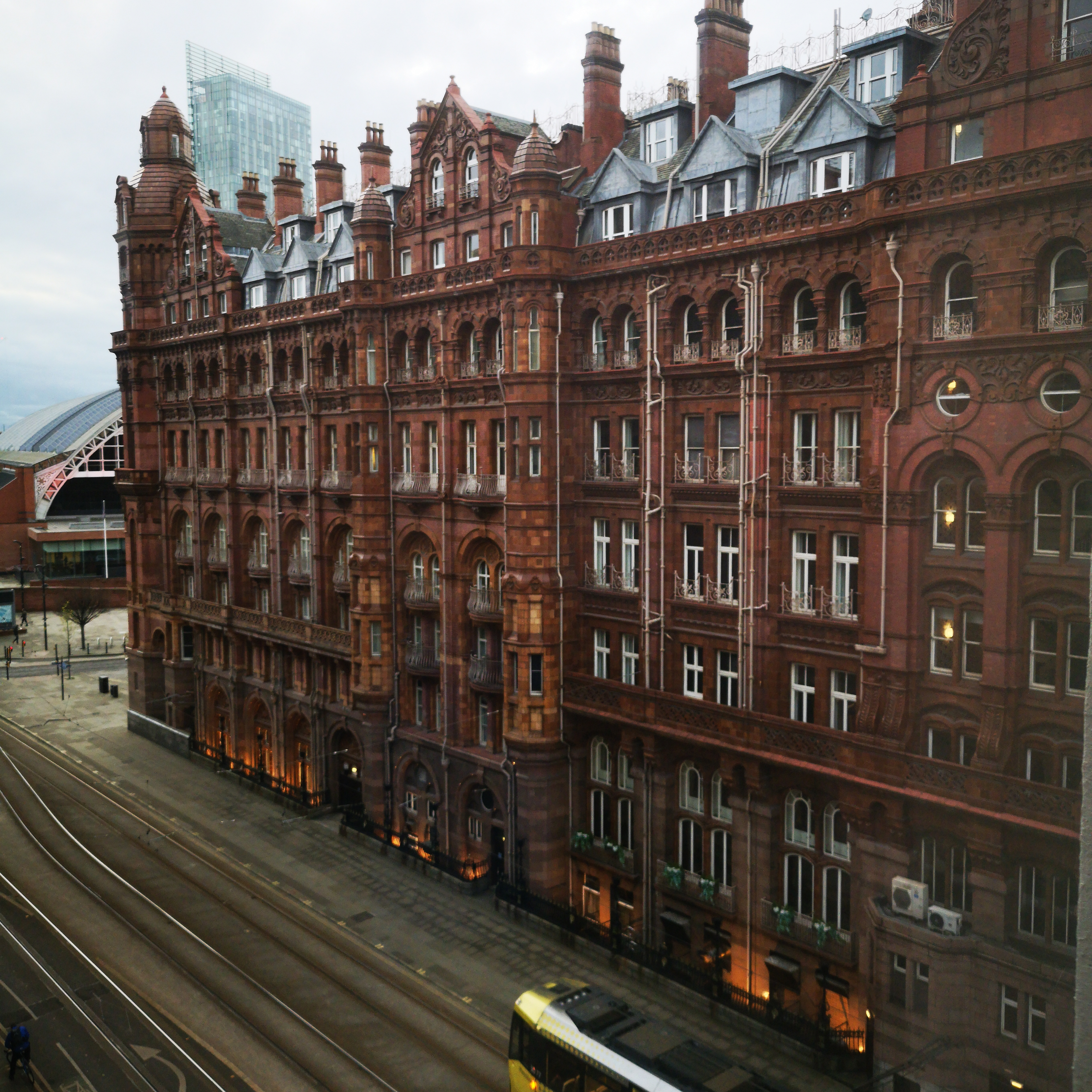 Side view of the Midland Hotel